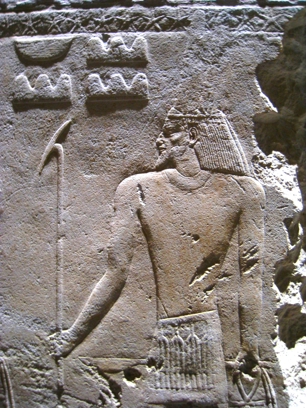 Reliefs of the funerary temple of Sahure. The god « Sopdu master of foreigners lands » - 5th dynasty of Egypt - Egyptian museum of Berlin